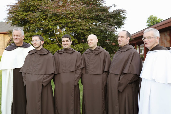 carmelites